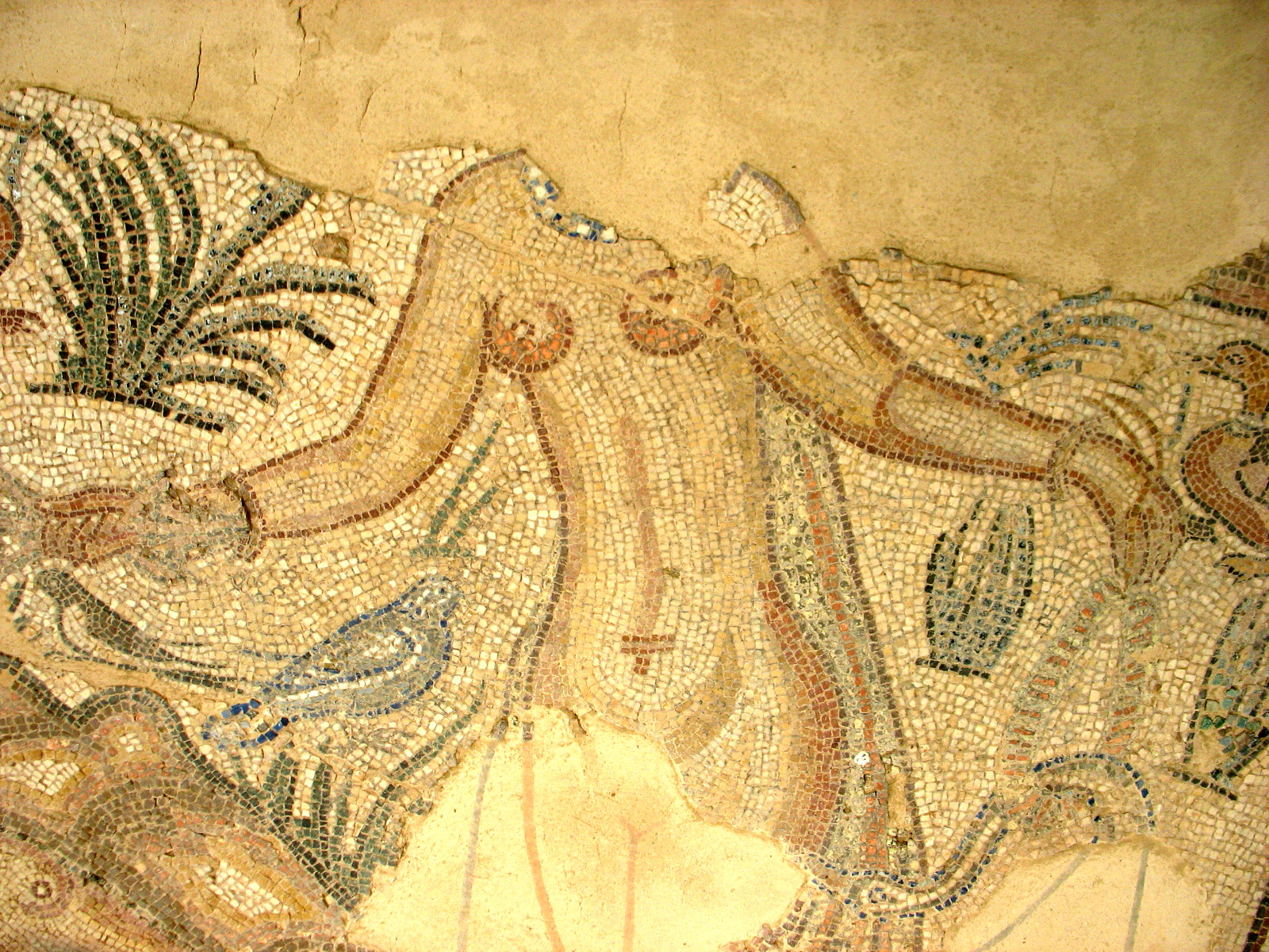 Roman villa of Las Musas, Arellano, Navarre, Spain